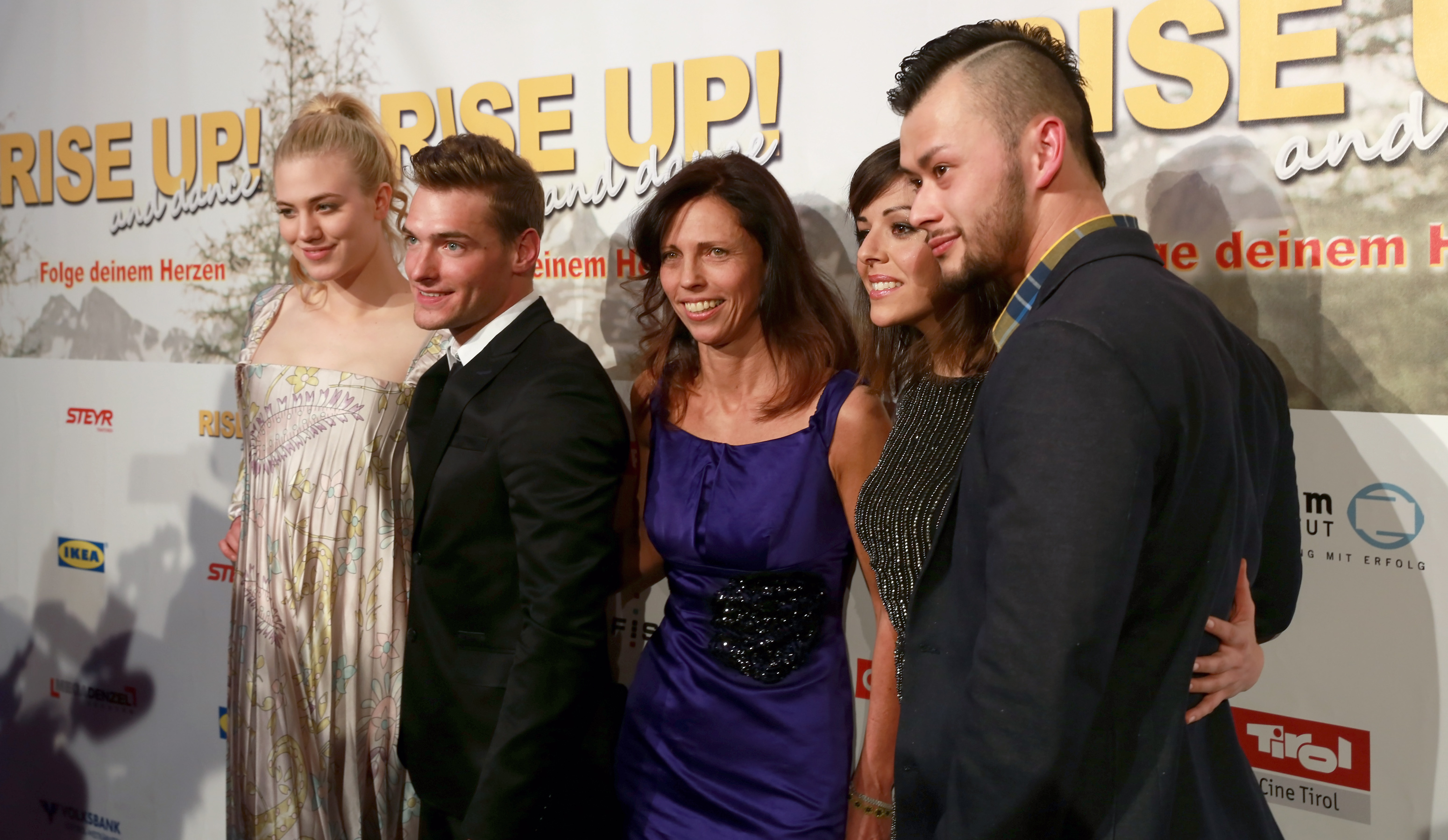 Larissa Marolt, Vinzenz Wagner, Barbara Gräftner, Marjan Shaki and Lukas Plöchl at the premiere of Rise Up! And Dance at UCI Kinowelt Millennium City in Vienna.